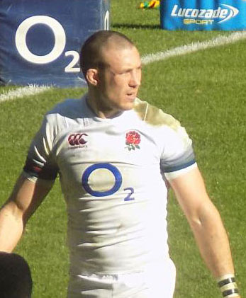 Brown playing his usual role at full-back for England, 2018.